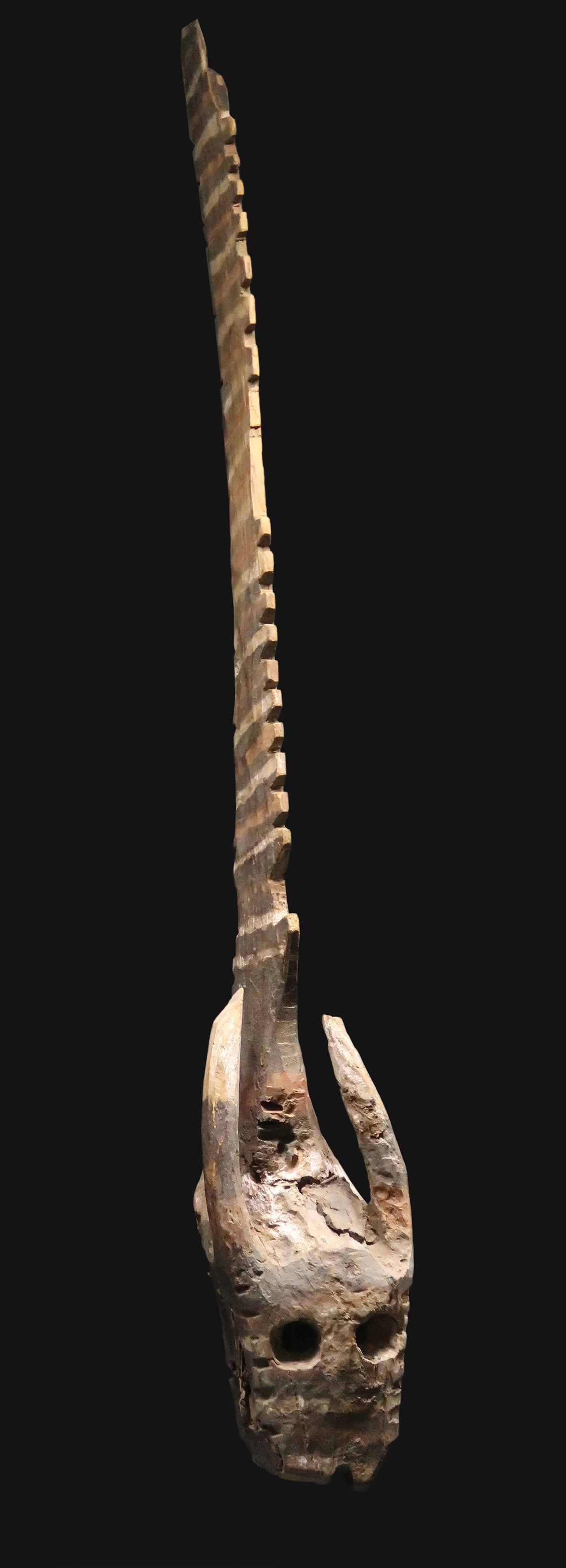 Kurumba culture. Burkina Faso, Yatenga region. Blade mask. Wood, cowry shells, cotton, vegetable fibers, pigments. MHNT Museum of Natural History of Toulouse, France. Acquisition, 1968. ETH.AC.1688